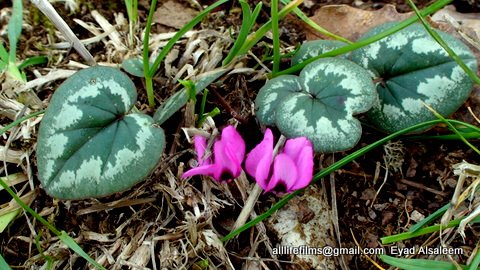 نبات برّي سوري يؤكل